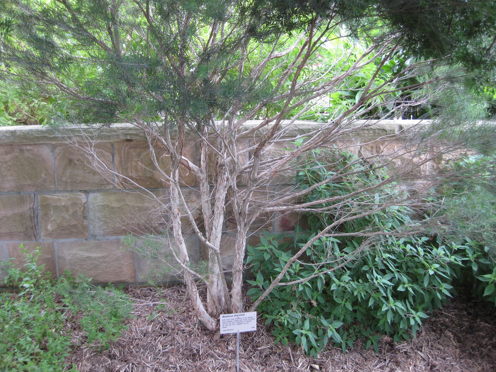 Photographed at the Royal Botanic Gardens Sydney (Australia) in January